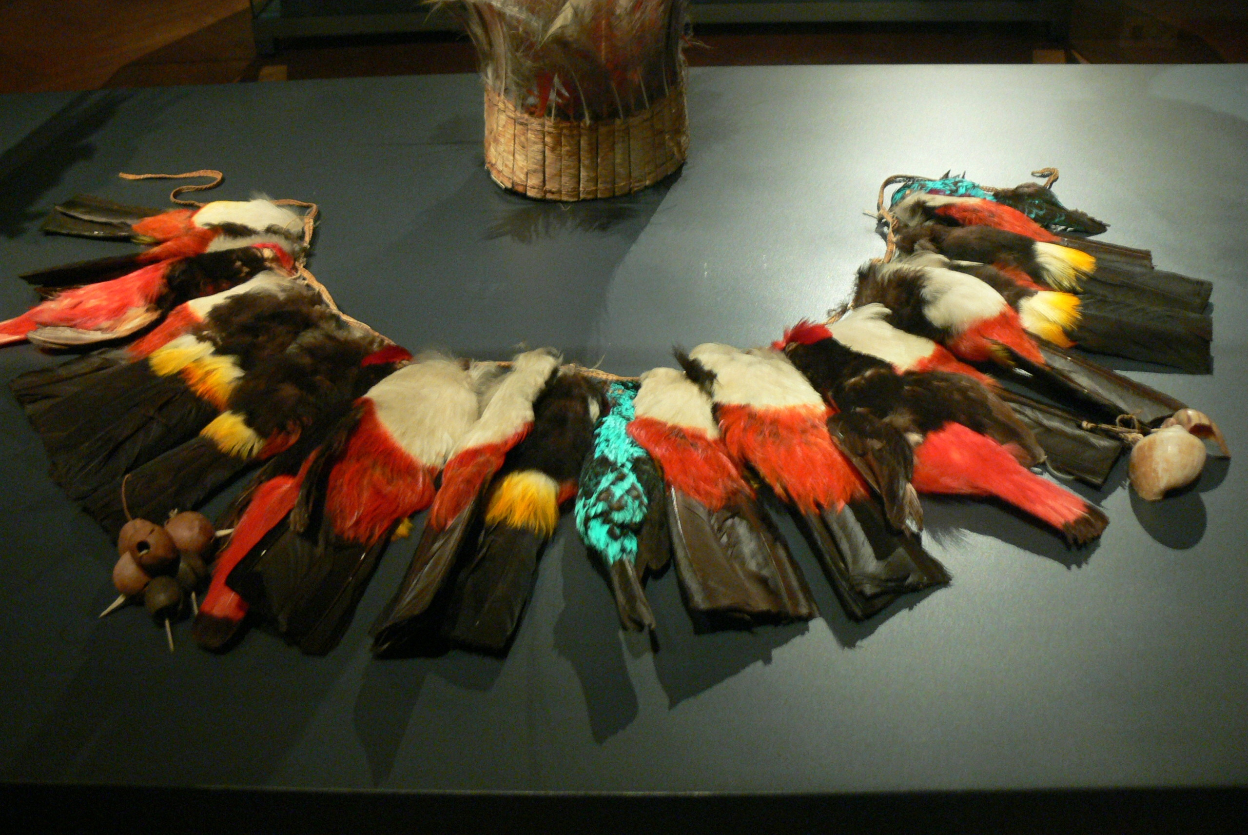 Museum of Ethnology (Vienna). Exhibition "Beyond Brazil": Ceremonial dress ( 1830 ) of the Ticuna people, Western Amazonia, Brazil - Feathered necklace.